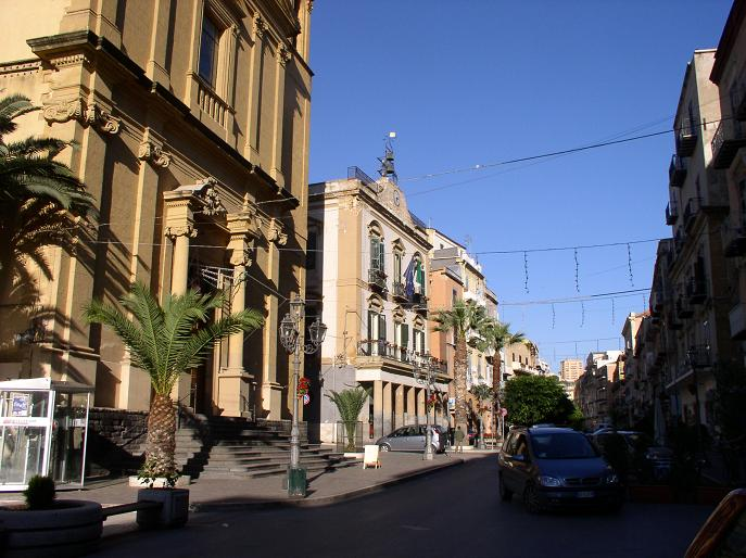 Main Street in the city of Porto Empedocle, Sicily, Italy. (by G. Melfi, dec. 2006)